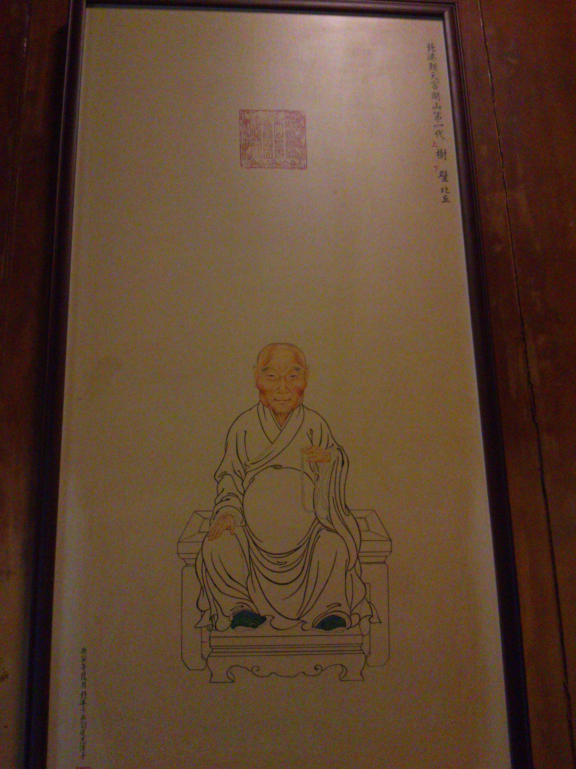 畫中主角為北港朝天宮開山祖師:樹壁和尚